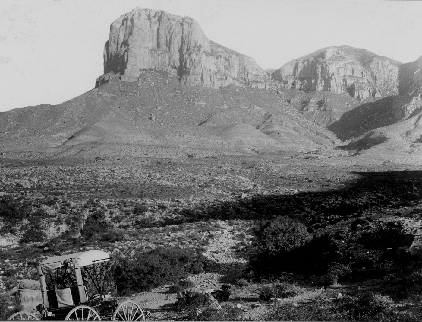 Guadalupe Mountains in 1899 as shown in a U.S. Geological Survey photo. El Capitan is in center of photo and Guadalupe Peak in right background is the highest point in Texas. Culberson County, Texas. Plate 8-A in U.S. Geological Survey, Bulletin 794, 1928.